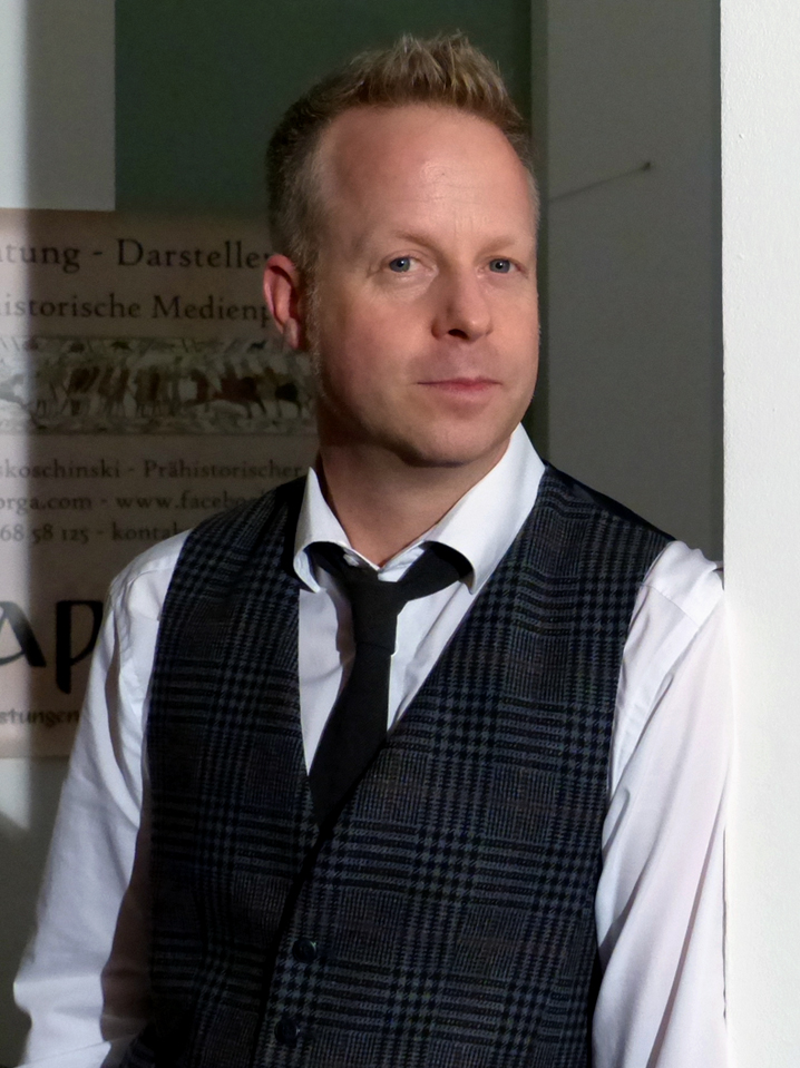 German author Carsten Steenbergen at the Bumm Event/DVD-Release-Event of Mara und der Feuerbringer in Munich, Germany, 2015.